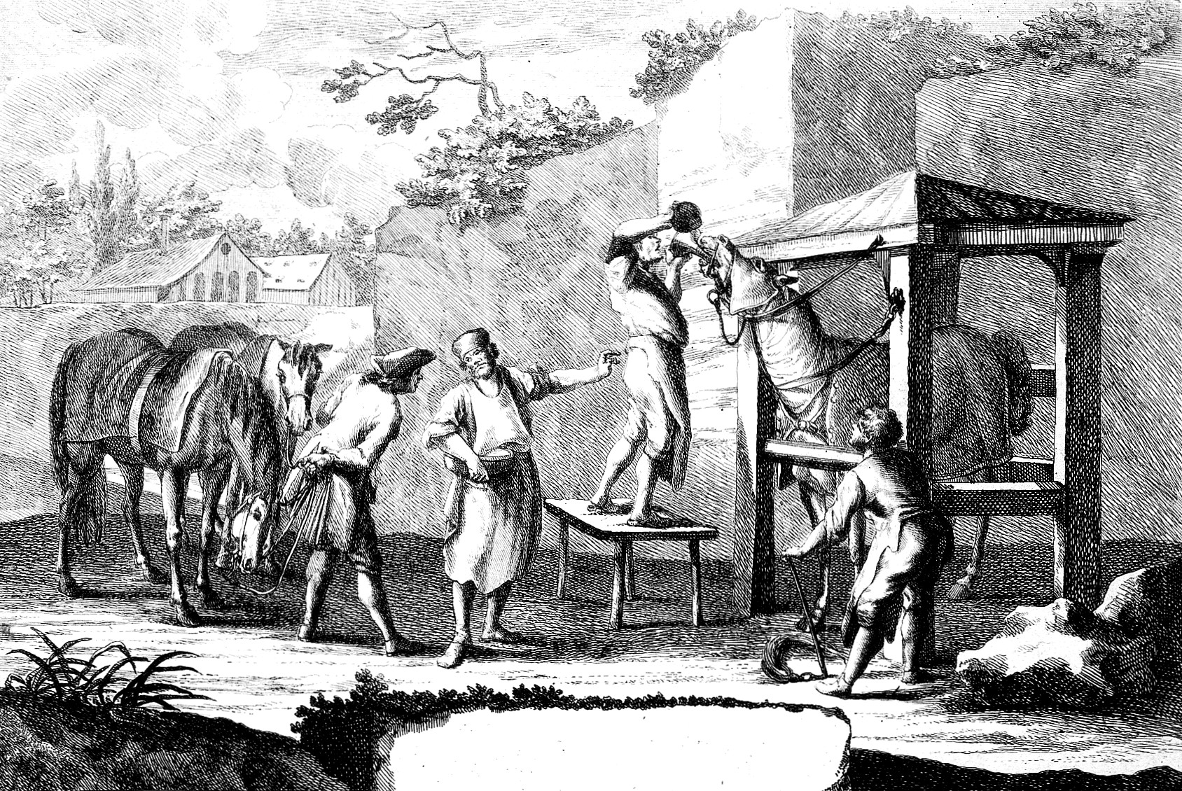 A horse doctor giving medicine to a horse; German. Iconographic Collections Keywords: Veterinary Medicine